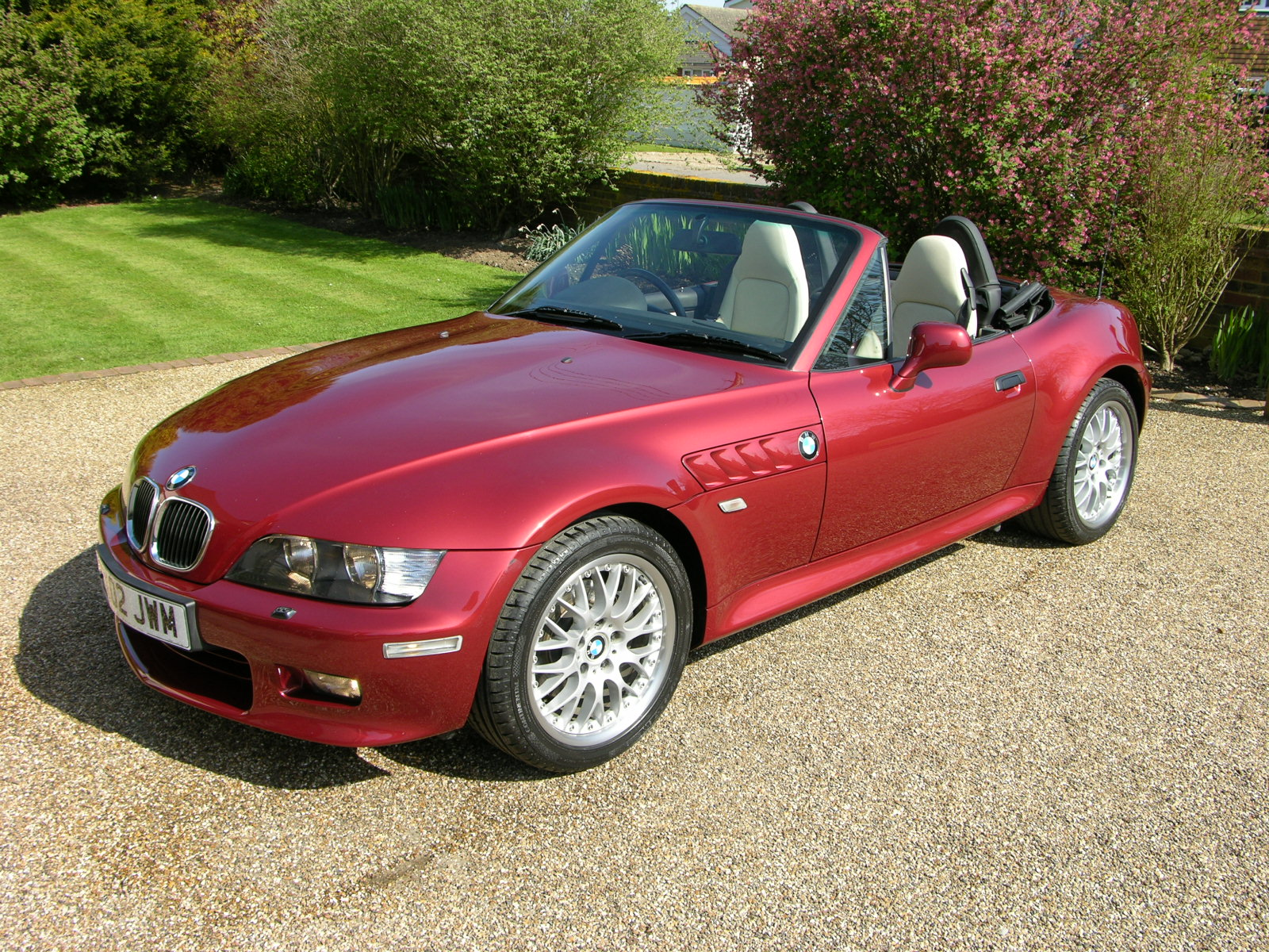 BMW Z3 3.0i Calypso Red 2002